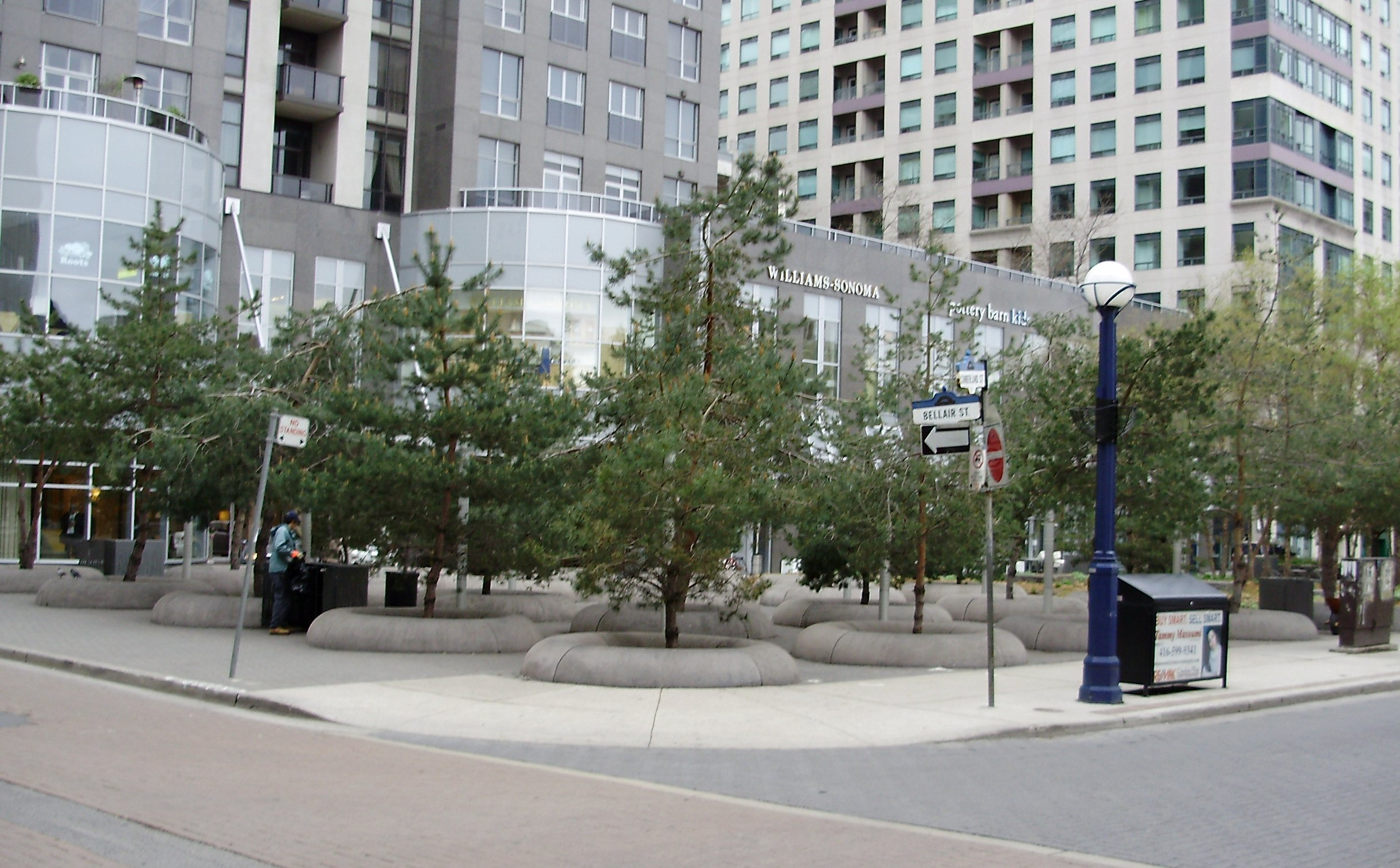 Pine trees growing in Toronto's Yorkville Park.